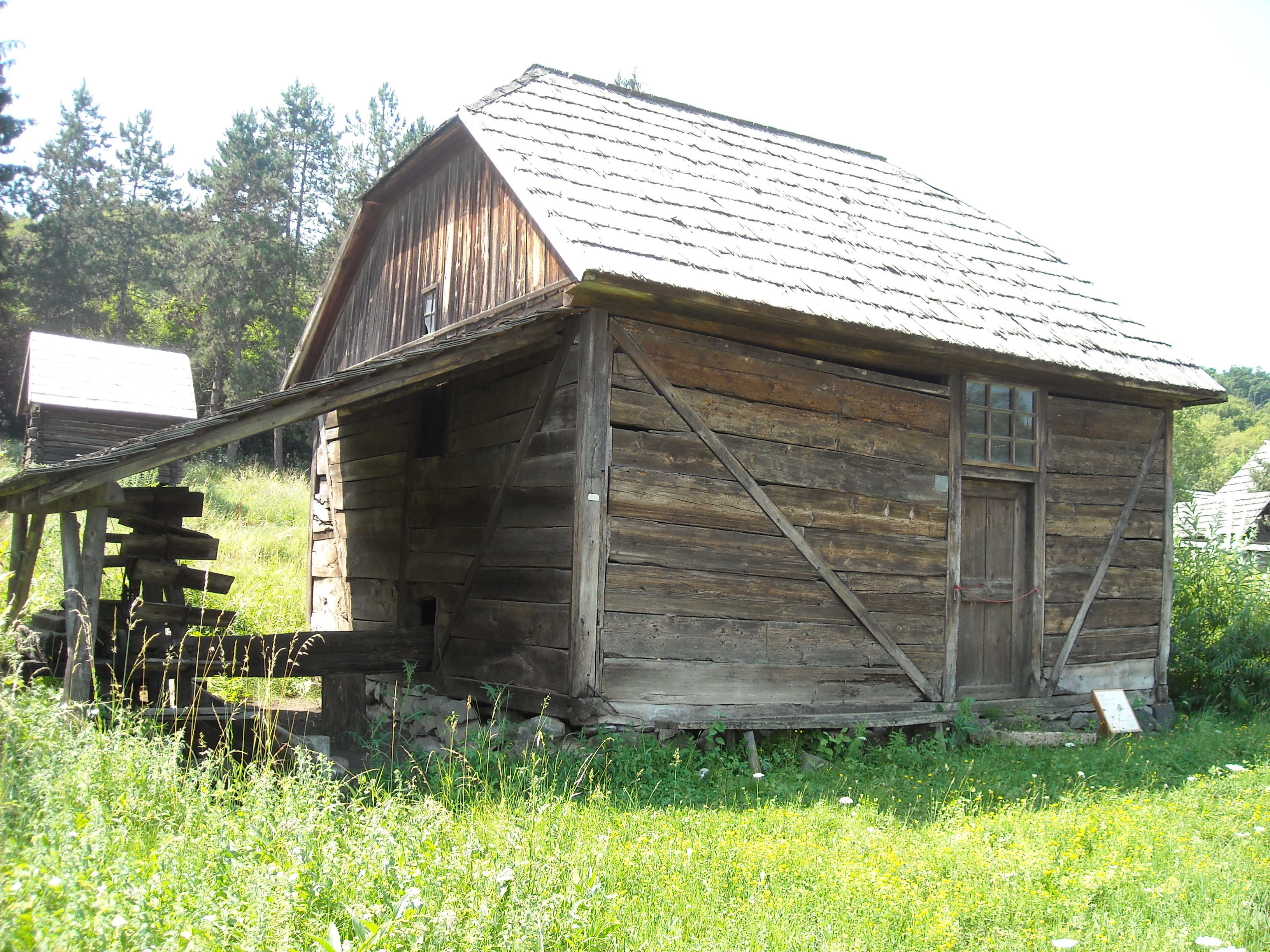 an overshot watermill, originally built in Josenii Bârgăului in 1819, today in the open-air ethnographic museum of Cluj/Kolozsvár